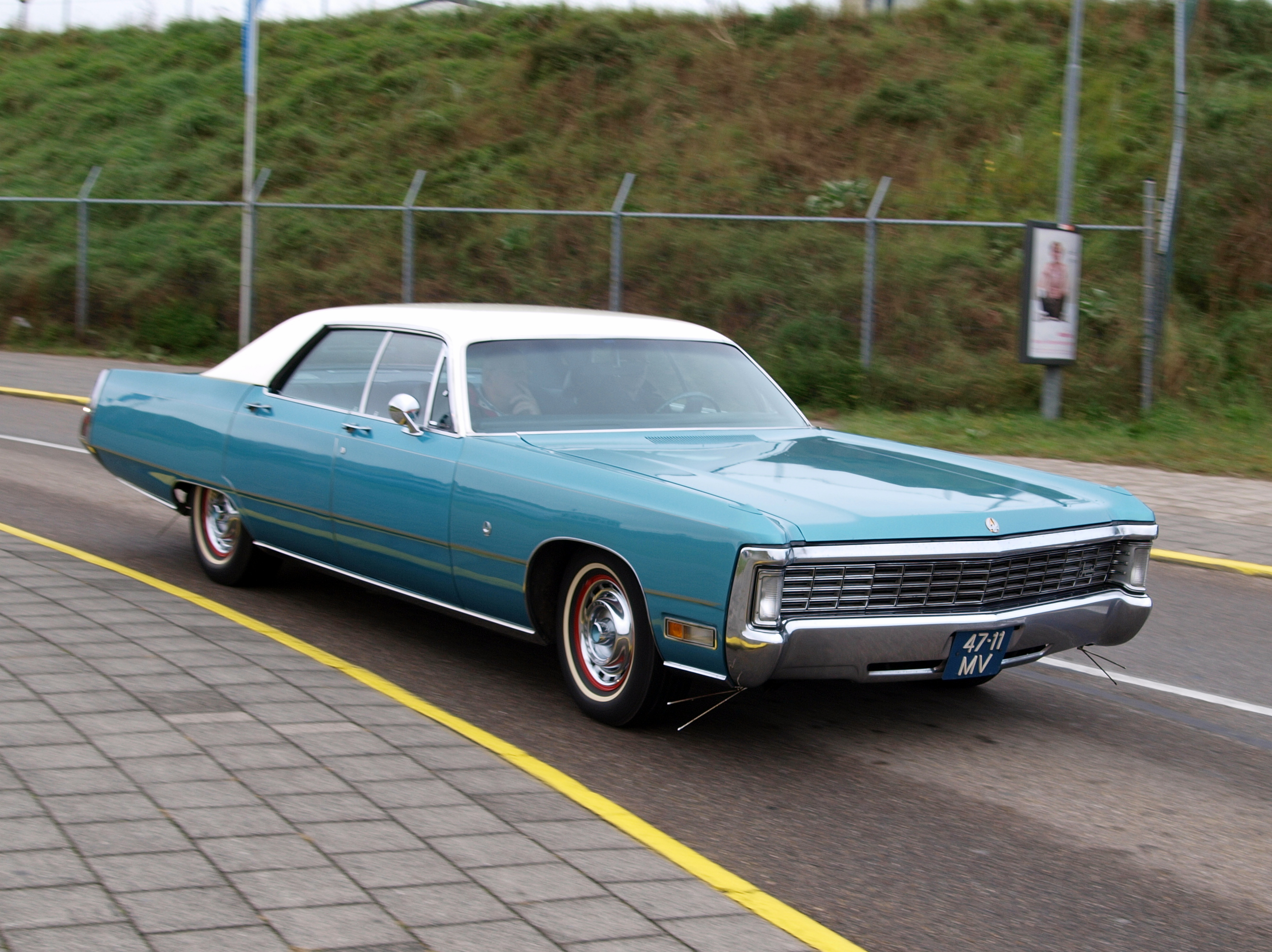 Photographed at the Nationaal Oldtimer Festival Zandvoort 2010, The Netherlands.